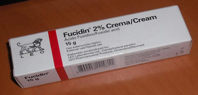 Fusidic acid package